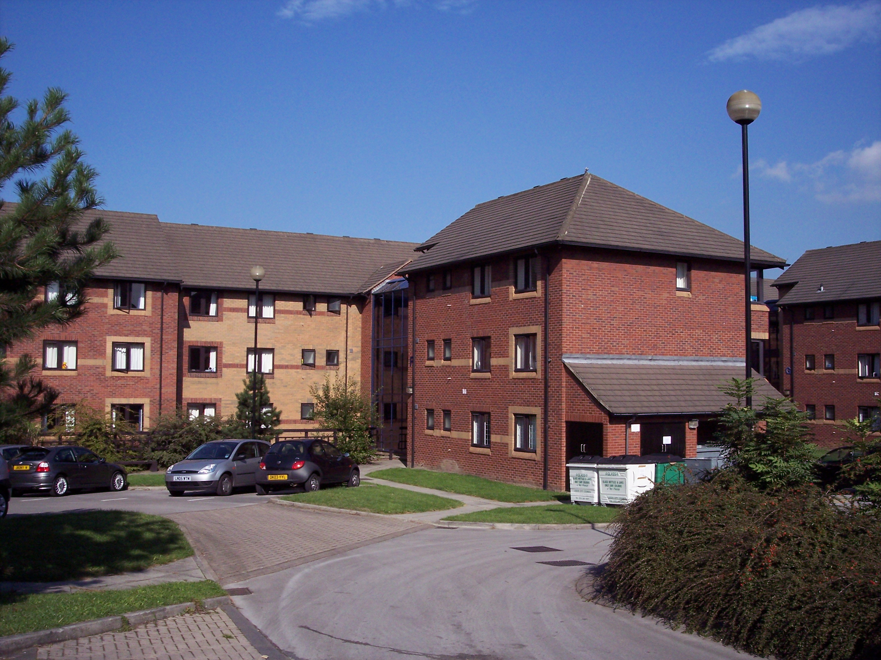 Montague Burton Residences of the University of Leeds: Block F seen from the central area.